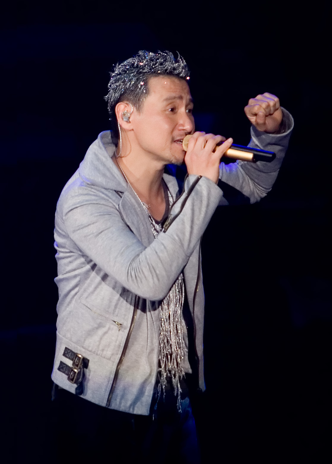 Jacky CheungBân-lâm-gú: Tiunn Ha̍k-iú. 張學友Jacky Cheung